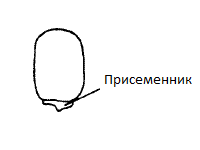 Caruncle Euphorbiaceae in russian